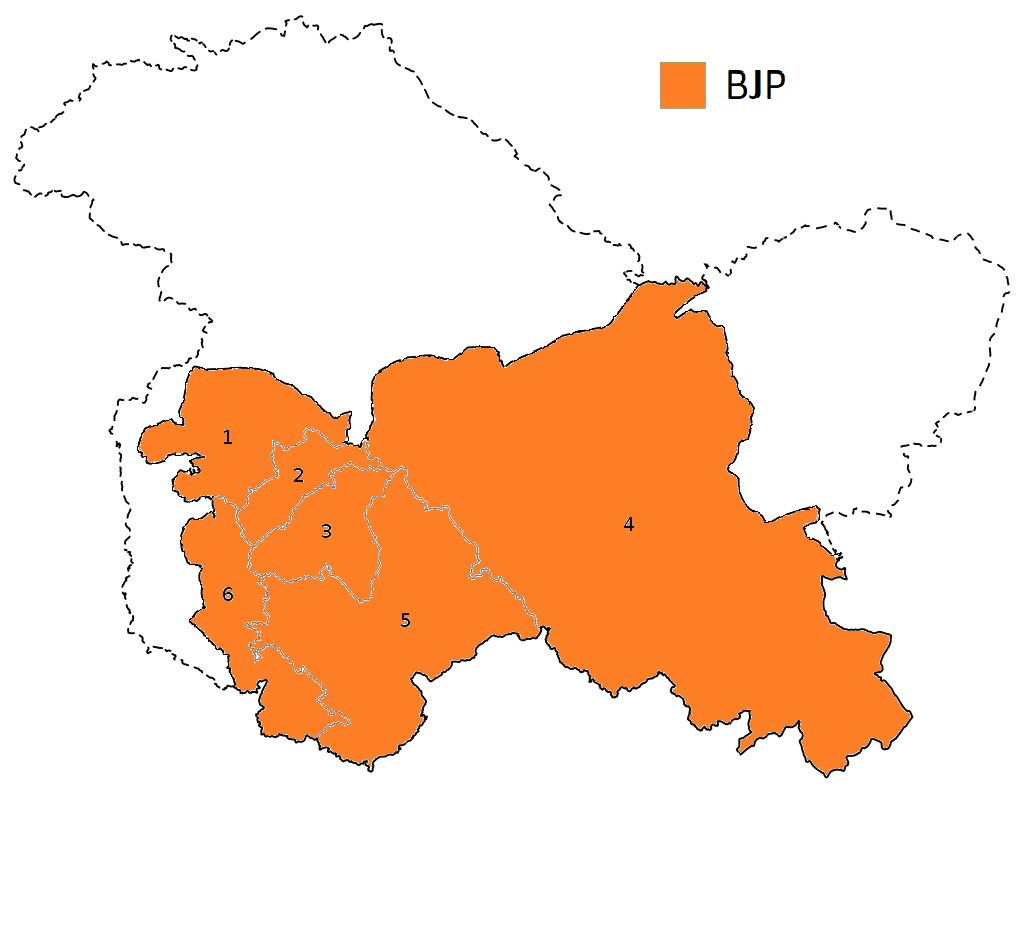 Seat Sharing of NDA in J&K in 2019 General Election